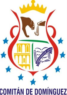 Coat of arms of Comitan de Dominguez, Chiaps